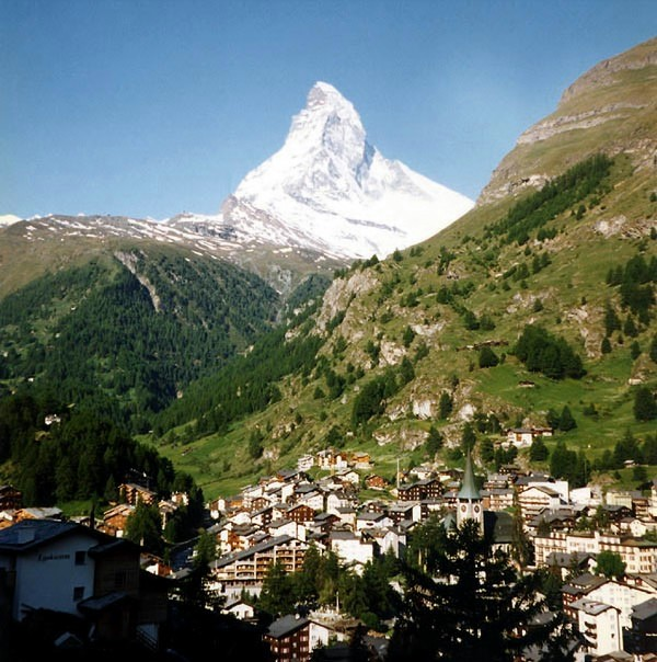 The Matterhorn is located on the border between Switzerland and Italy, towering over the Swiss town of Zermatt and the Italian town of Breuil-Cervinia in the Val Tournanche. It was the last major mountain of the Alps to be climbed, not merely because of its technical difficulty, but of the fear it inspired in early mountaineers. The first serious attempts began around 1858, mostly from the Italian side, but despite appearances, the southern routes are harder, and parties repeatedly found themselves on difficult slippery rock and had to turn back. A little touched up to reduce minor flaws and noise.